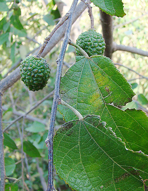 A useful tree which has been spread widely from its native Neotropics. Photo from southwestern Nicaragua. In context at